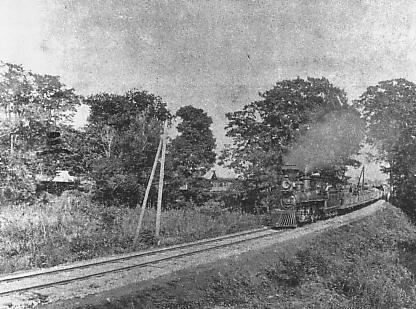 Horonai Railway